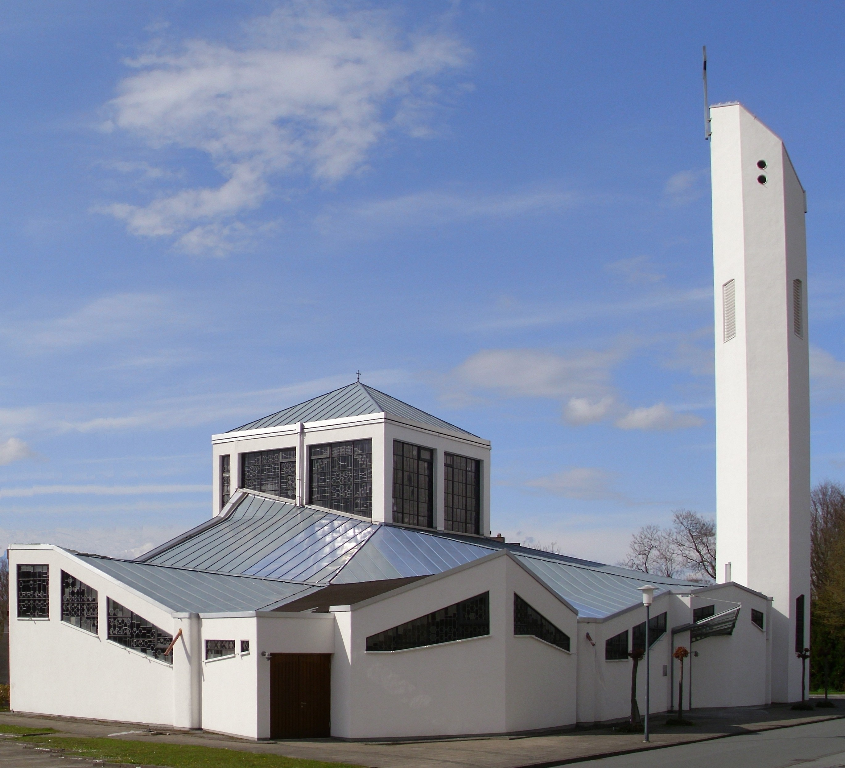 St. Pius Church Lippstadt, Germany 2012